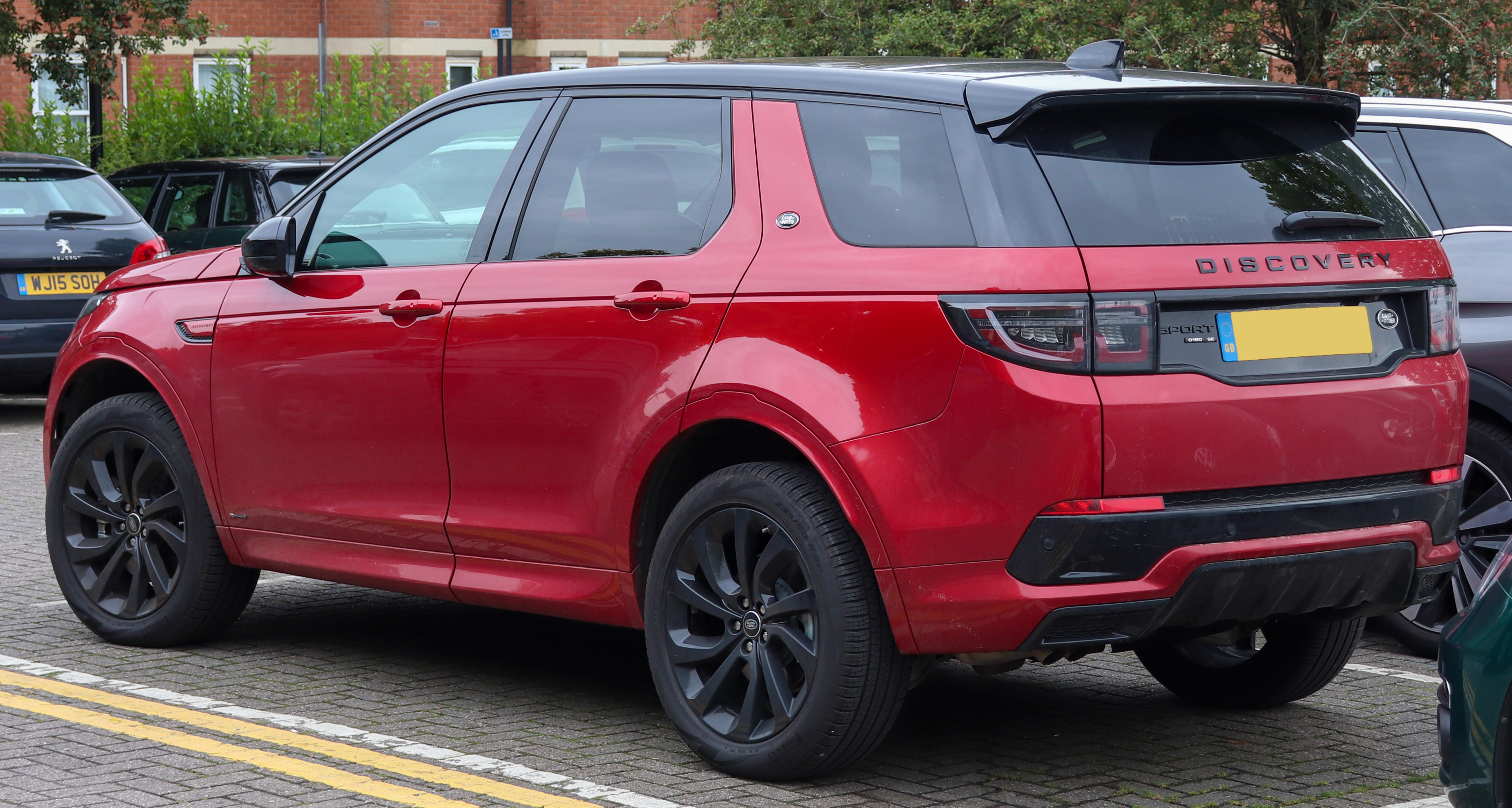 2019 Land Rover Discovery Sport R-Dynamic SE 2.0 Rear Taken in Leamington Spa